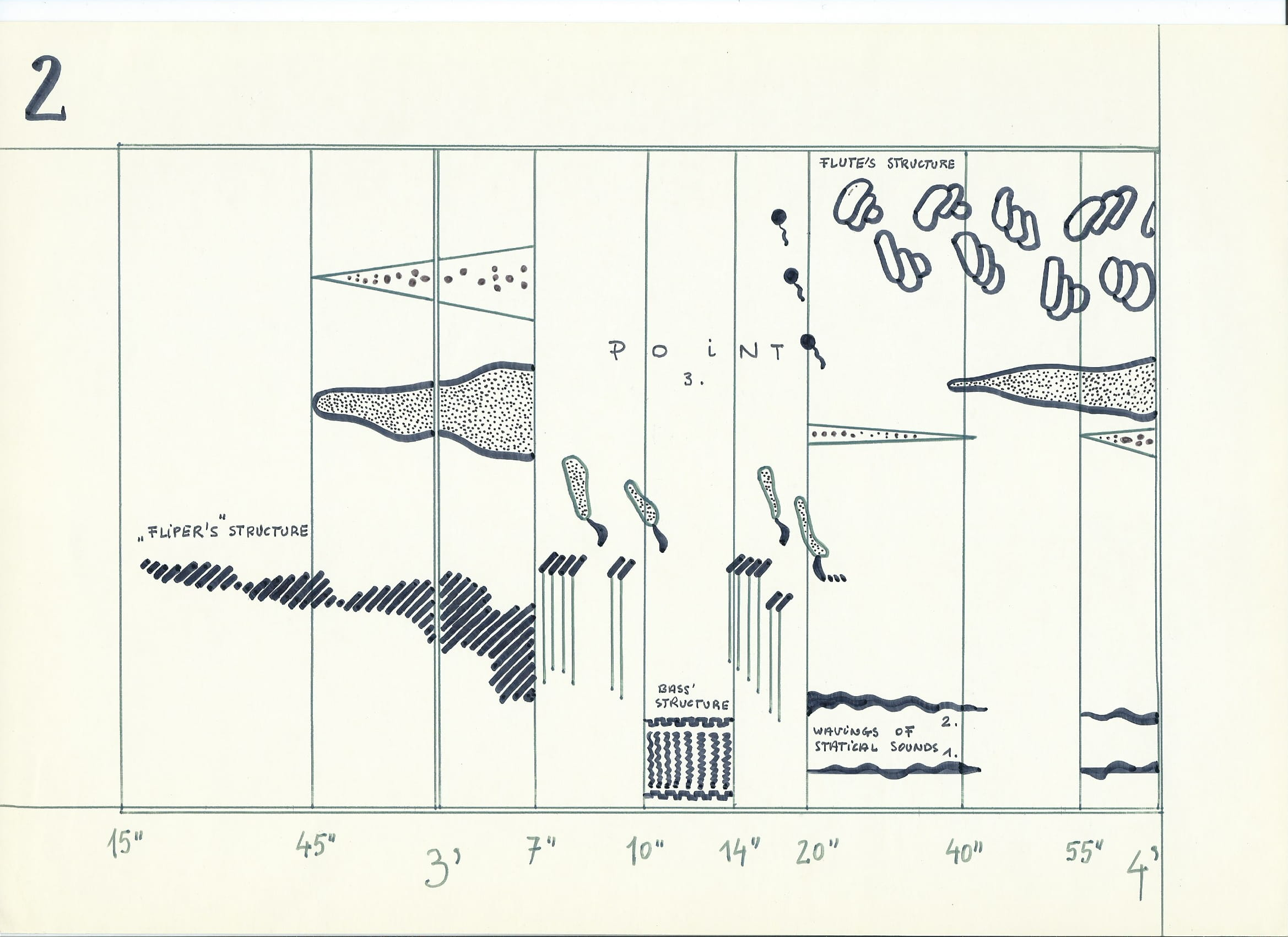 POINTS I-II , GRAPHIC SCORE, PAGE 2 FOT. Barbara Szeremeta